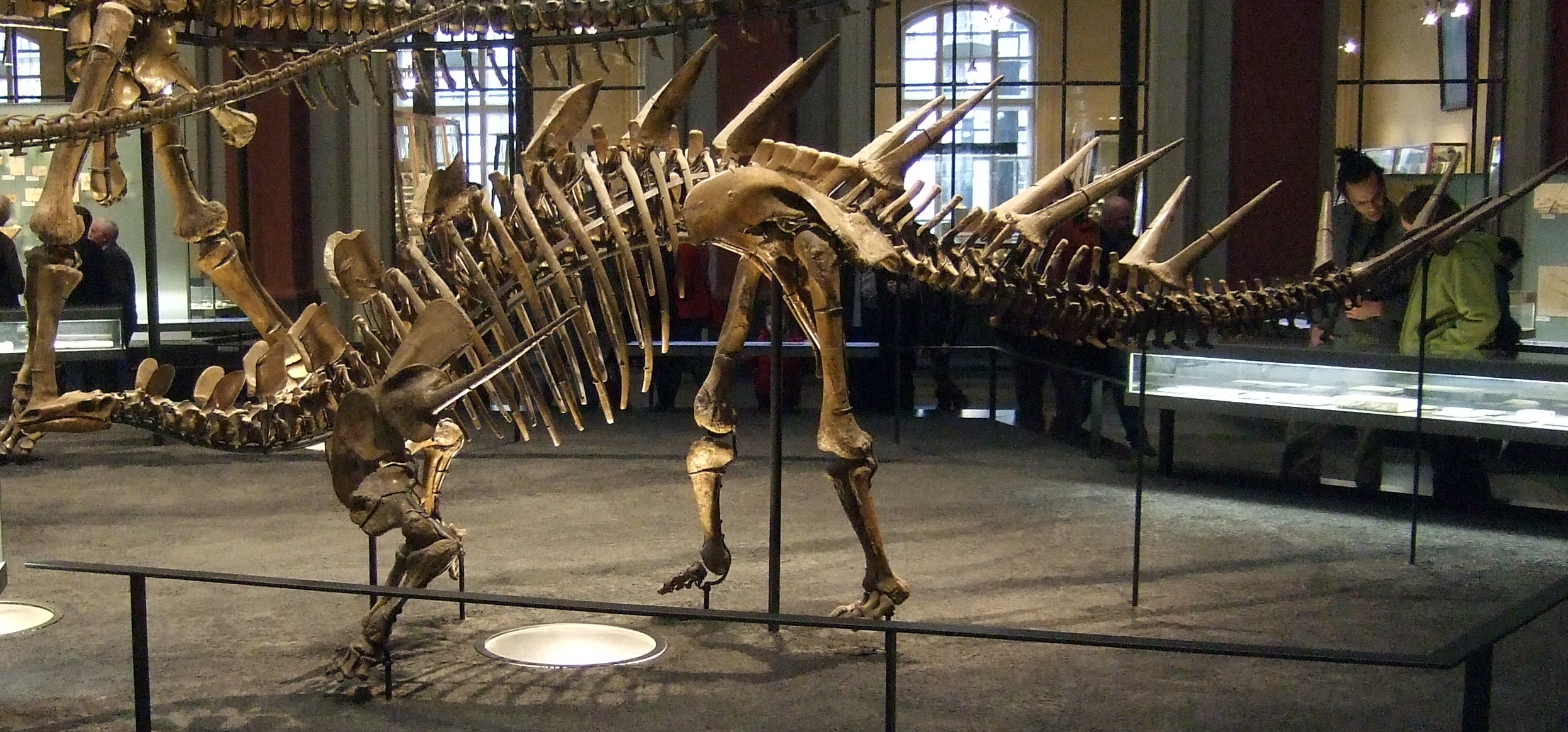 Fossil Kentrosaurus aethiopicus in Museum für Naturkunde Berlin.